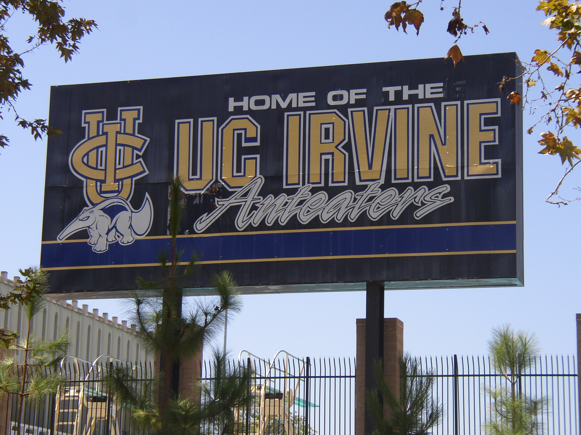 A prominent UCI sign at Crawford Hall, part of the Crawford Athletic Complex. UCI sign at Crawford Hall - the athletic complex.